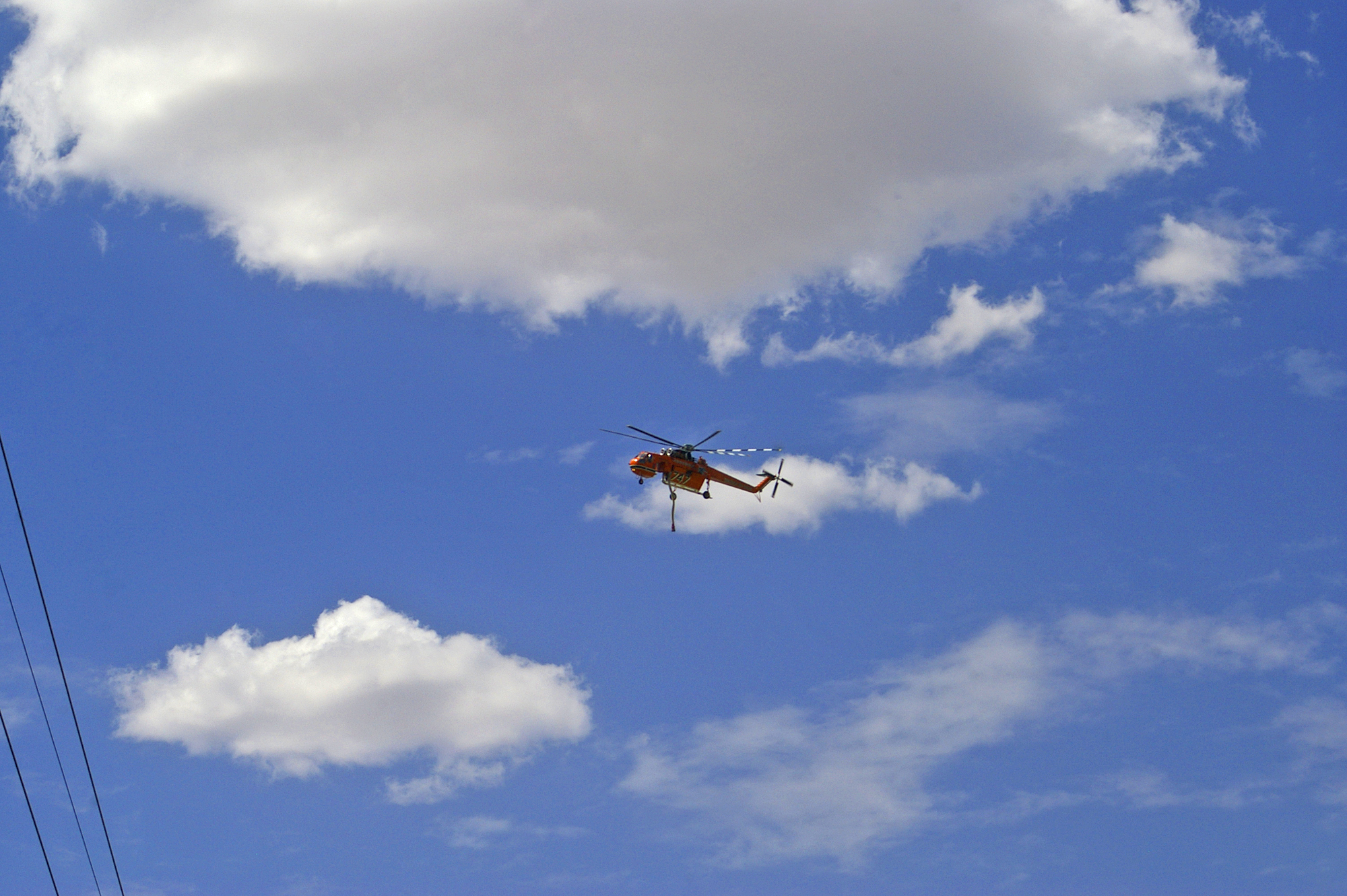 Erickson Aircrane 'Delilah' being used to fight a fire on Bakers Lane in Gumly Gumly threatening the Wagga Wagga Airport near Wagga Wagga.